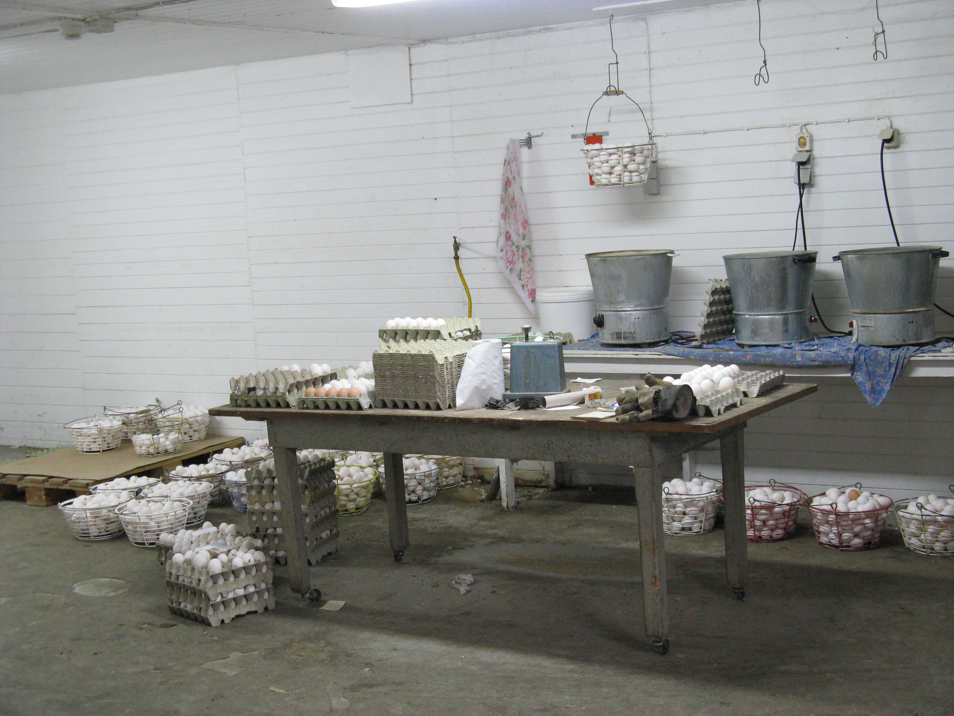 Egg cleaning station in Kaffiholen